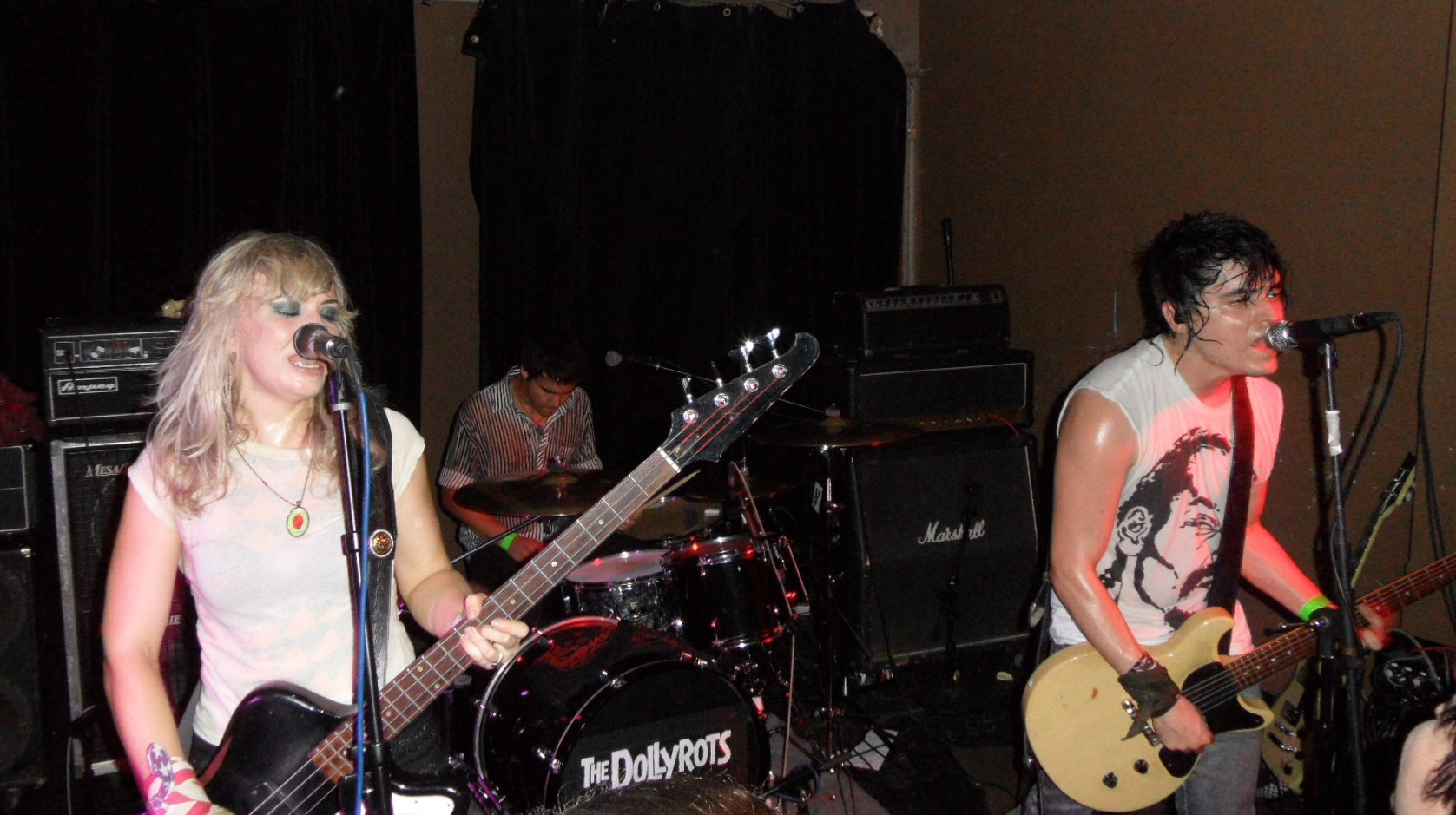 The Dollyrots performing at Township in Chicago 9/25/2012. Left to right: Kelly Ogden, James Carman, Luis Cabezas